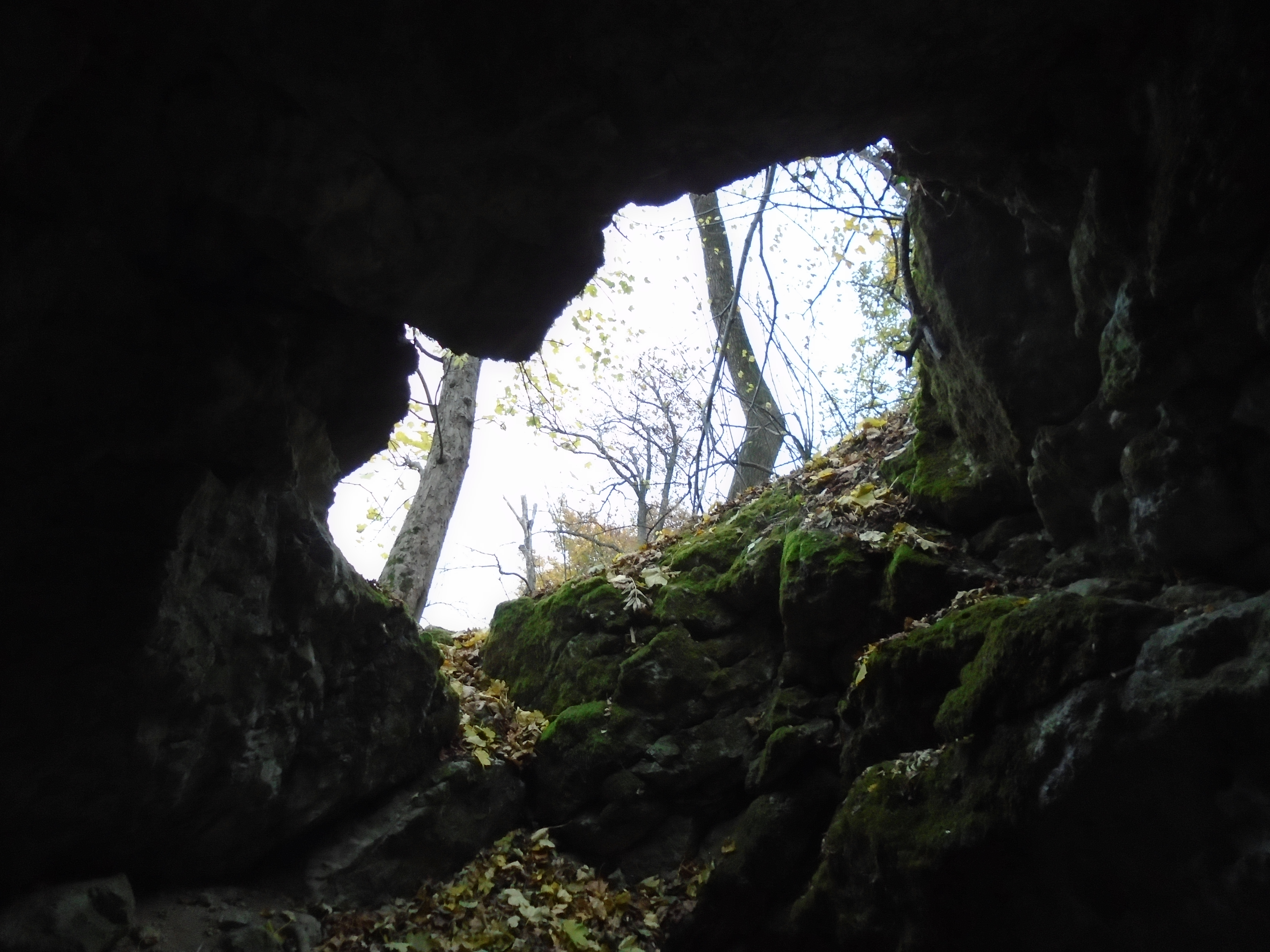 Kápolna Cave in Budakalász.